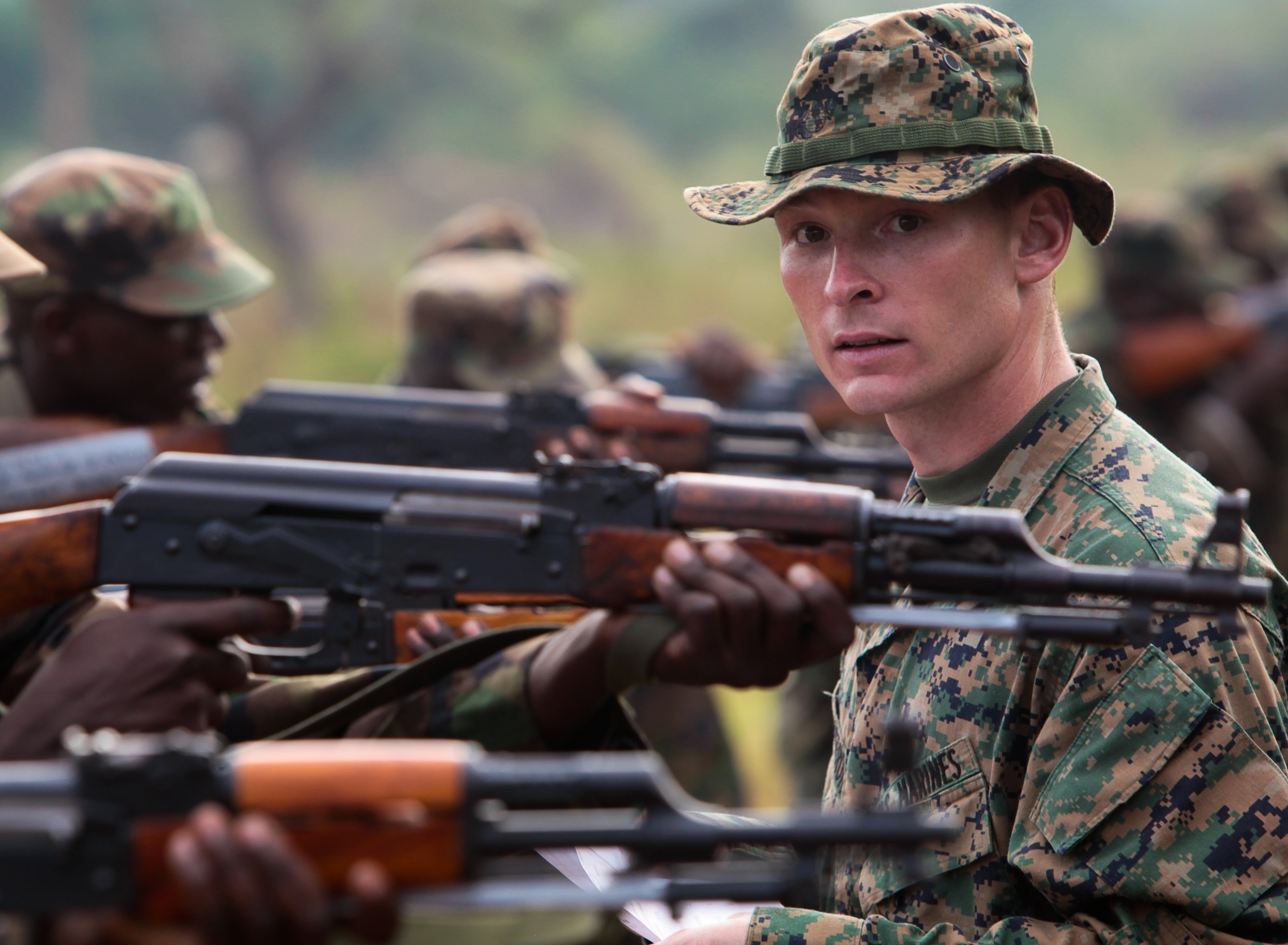 U.S. Marine Sgt. Joseph Bergeron, a task force combat engineer, explains combat marksmanship tactics to a group of Ugandan soldiers, Feb. 27. Special Purpose Marine Air Ground Task Force 12 sent a small team of Marines into Uganda, Feb. 3, to train Ugandan forces for the fight against al-Shabaab in Somalia and the hunt for Joseph Kony and the Lord’s resistance army.